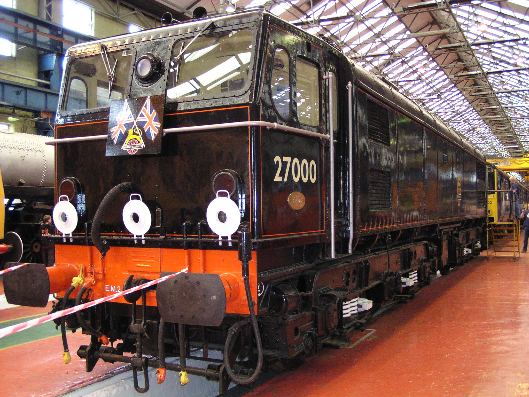 British Rail Class 77, no. 27000 on display at Crewe Works open day on 11th September 2005. Image by Phil Scott (Our Phellap)